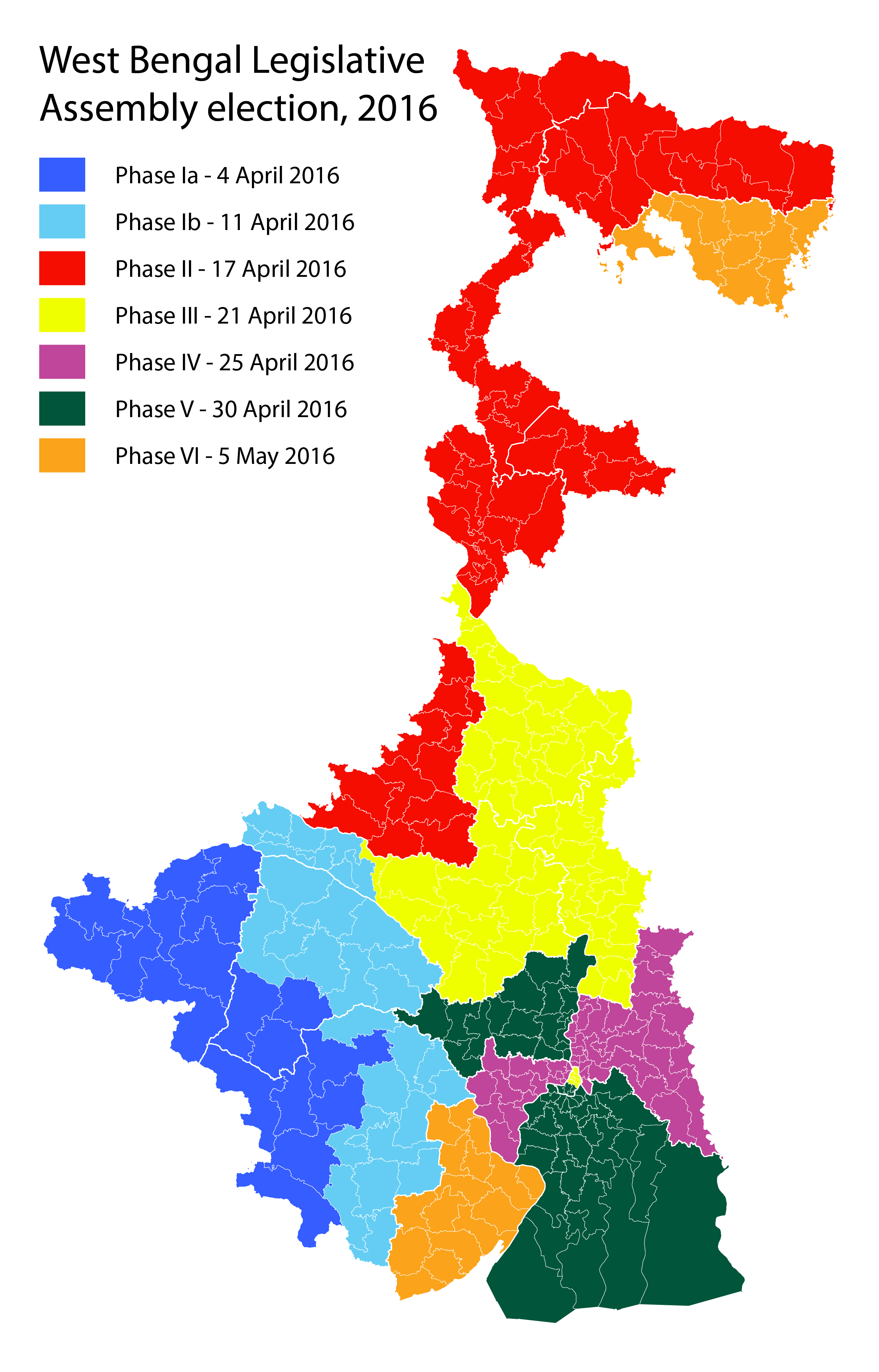 A map showing the polling dates for various districts in the 2016 West Bengal Legislative Assembly election.